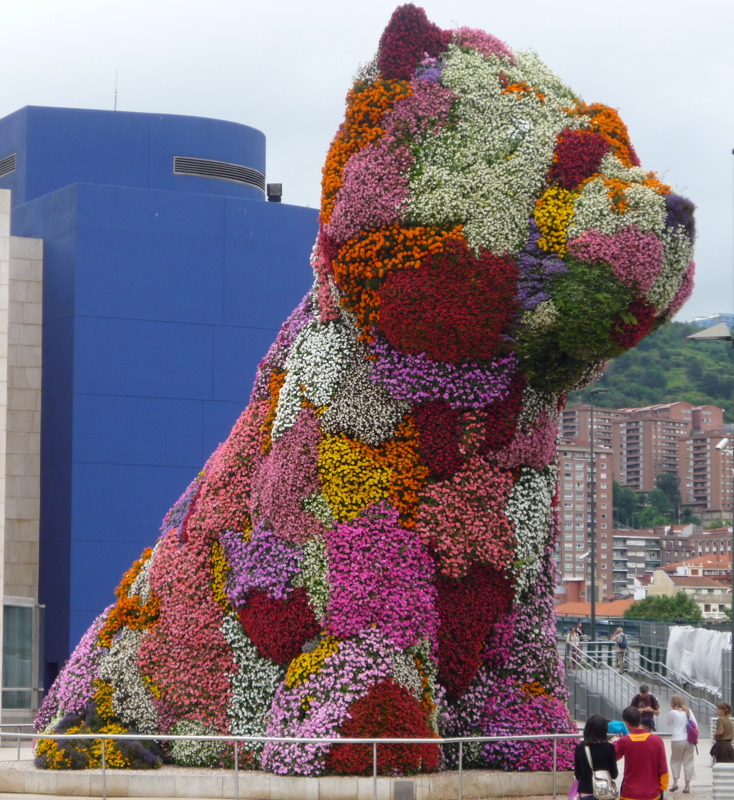 Jeff Koons, Puppy, in front of the Guggenheim museum, Bilbao.